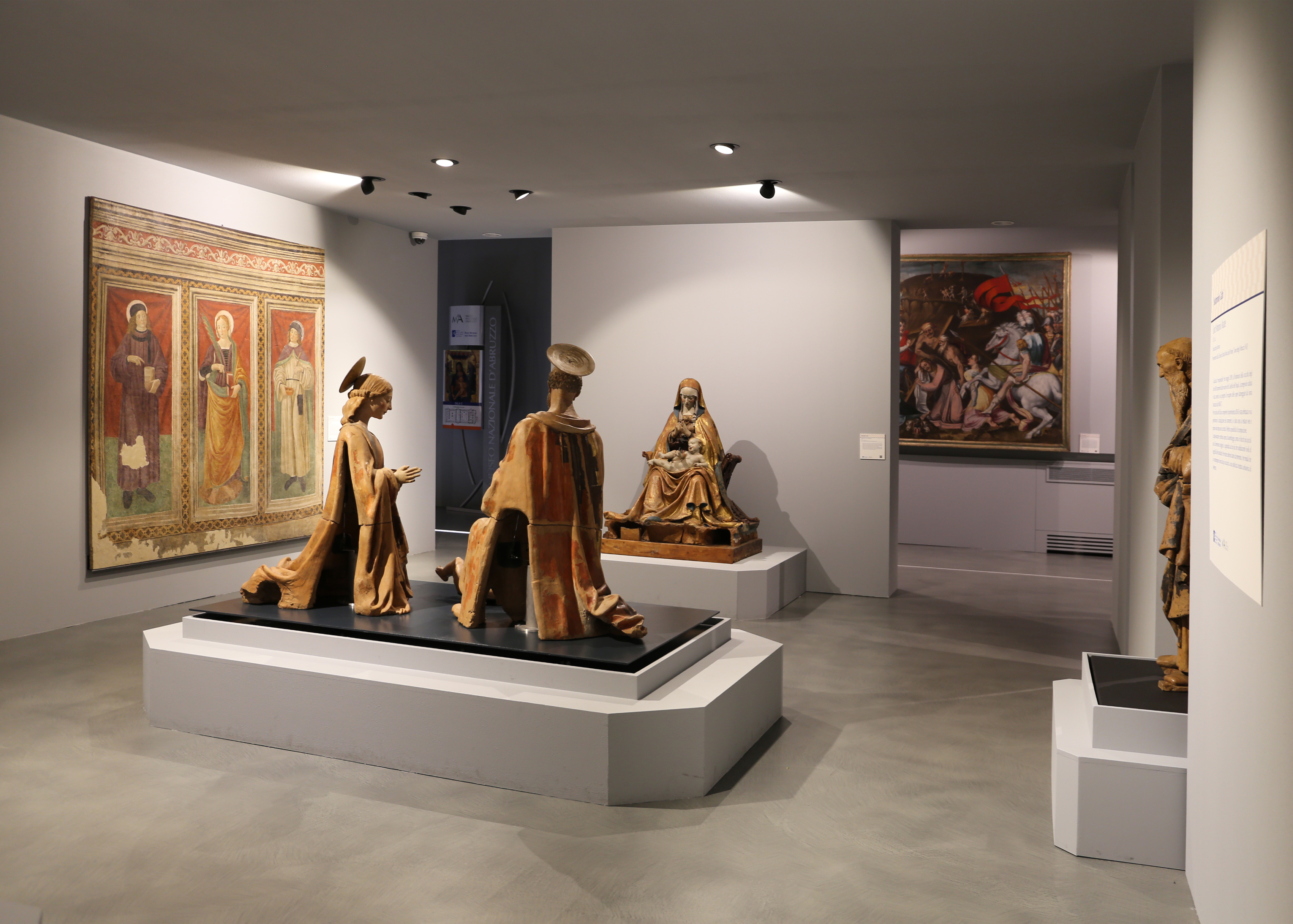 Museo nazionale d'Abruzzo